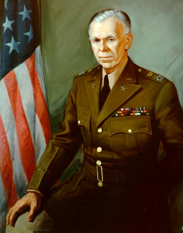 George Marshall